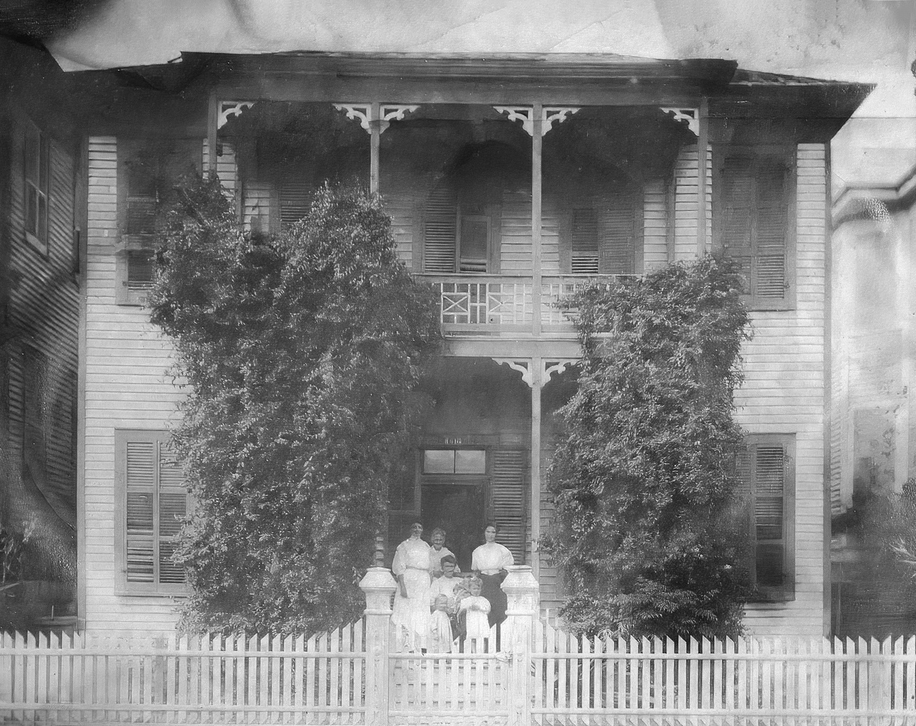 The Mathilda Wehmeyer House and German American Kindergarten School in Galveston, Texas.